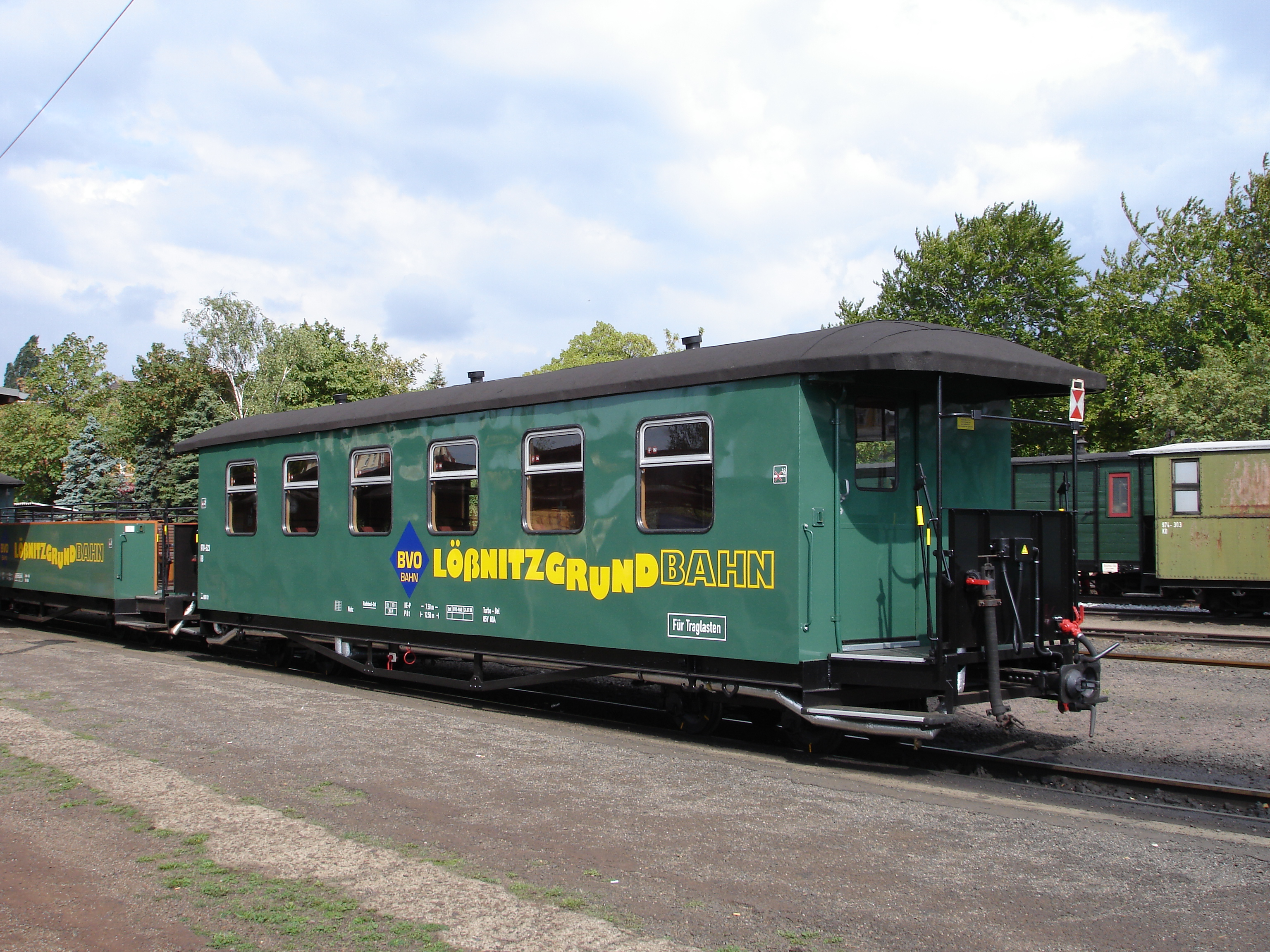 rail car of Lößnitzgrundbahn, Saxony, Germany